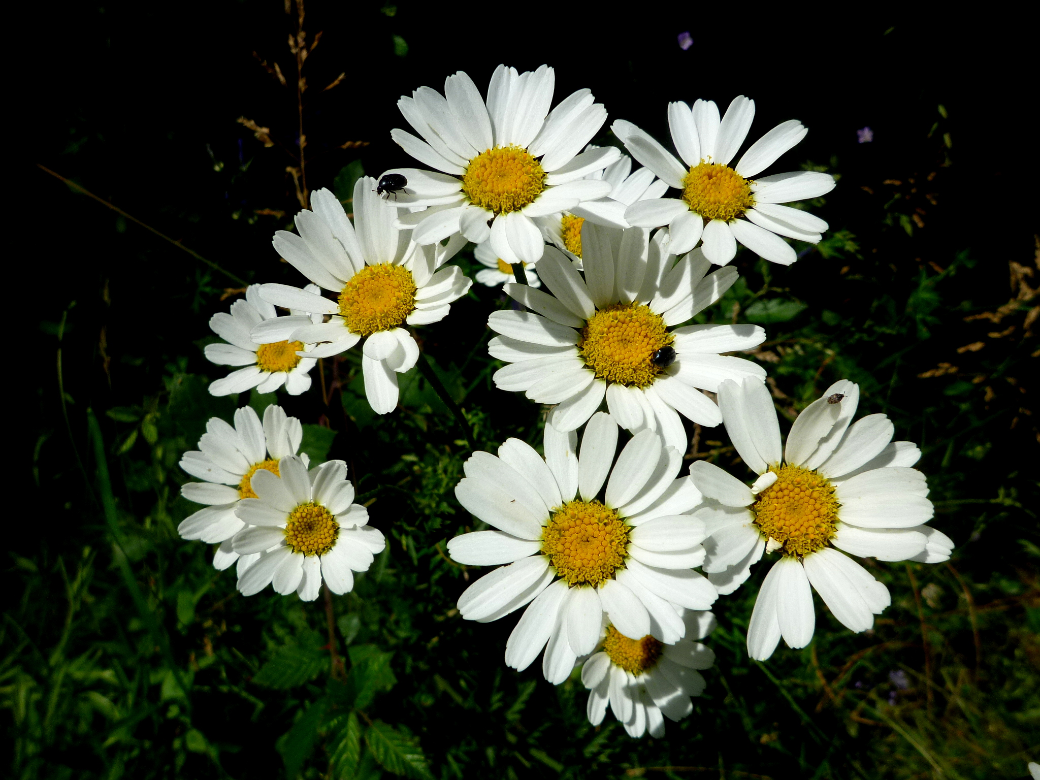 Leucanthemum vulgare. In Torà (Segarra- Catalunya). On 560 m. altitude